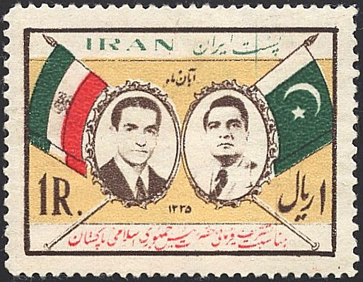 Stamp -Shah of Iran, and Iskander Mirza First President of Pakistan